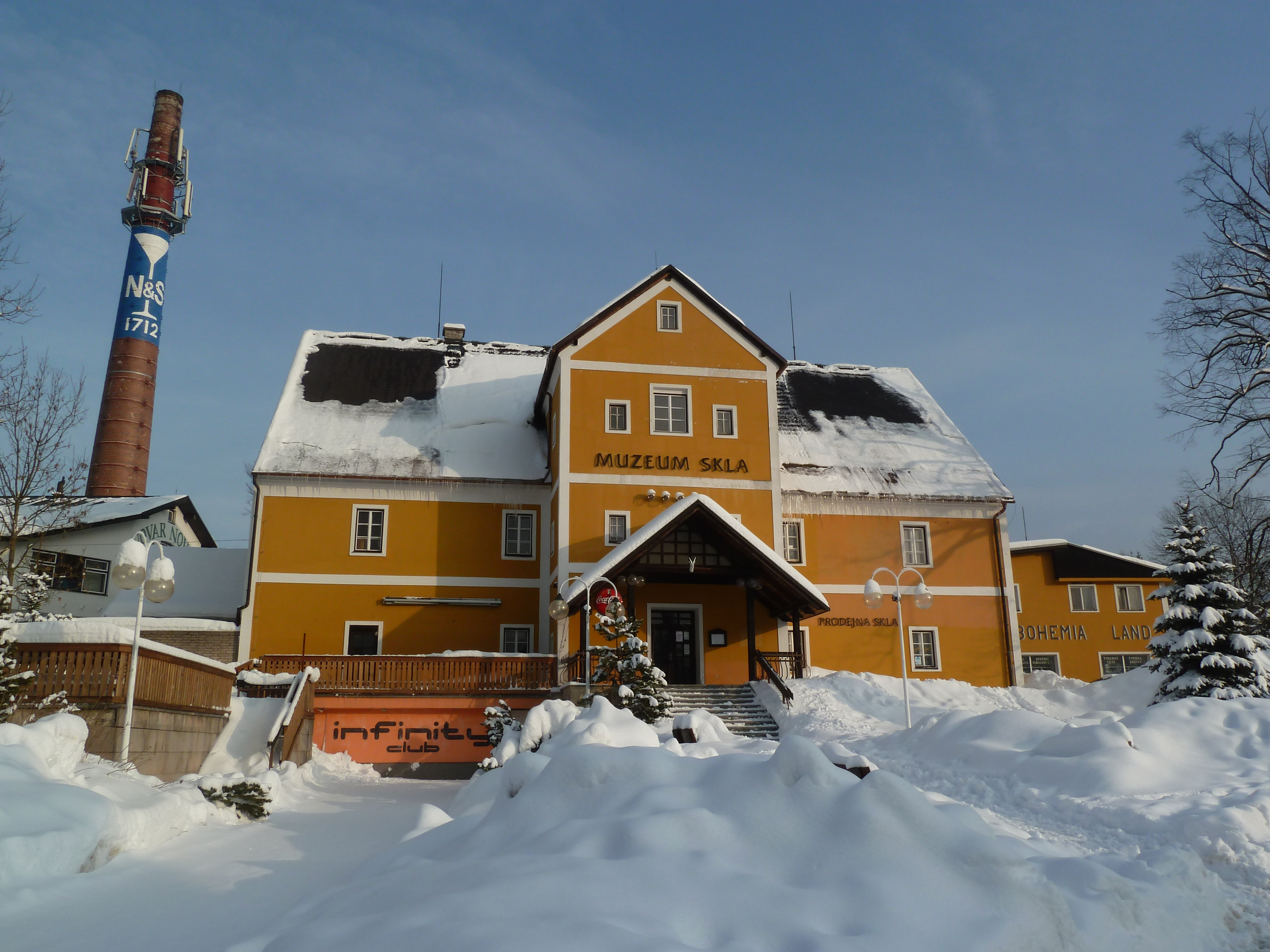 Glassworks since 1712, combined with a microbrewery since 2002, restaurant, hotel and a retail shop. Picture shows the former mansion of the founder, Count Harrach; now museum of glass.